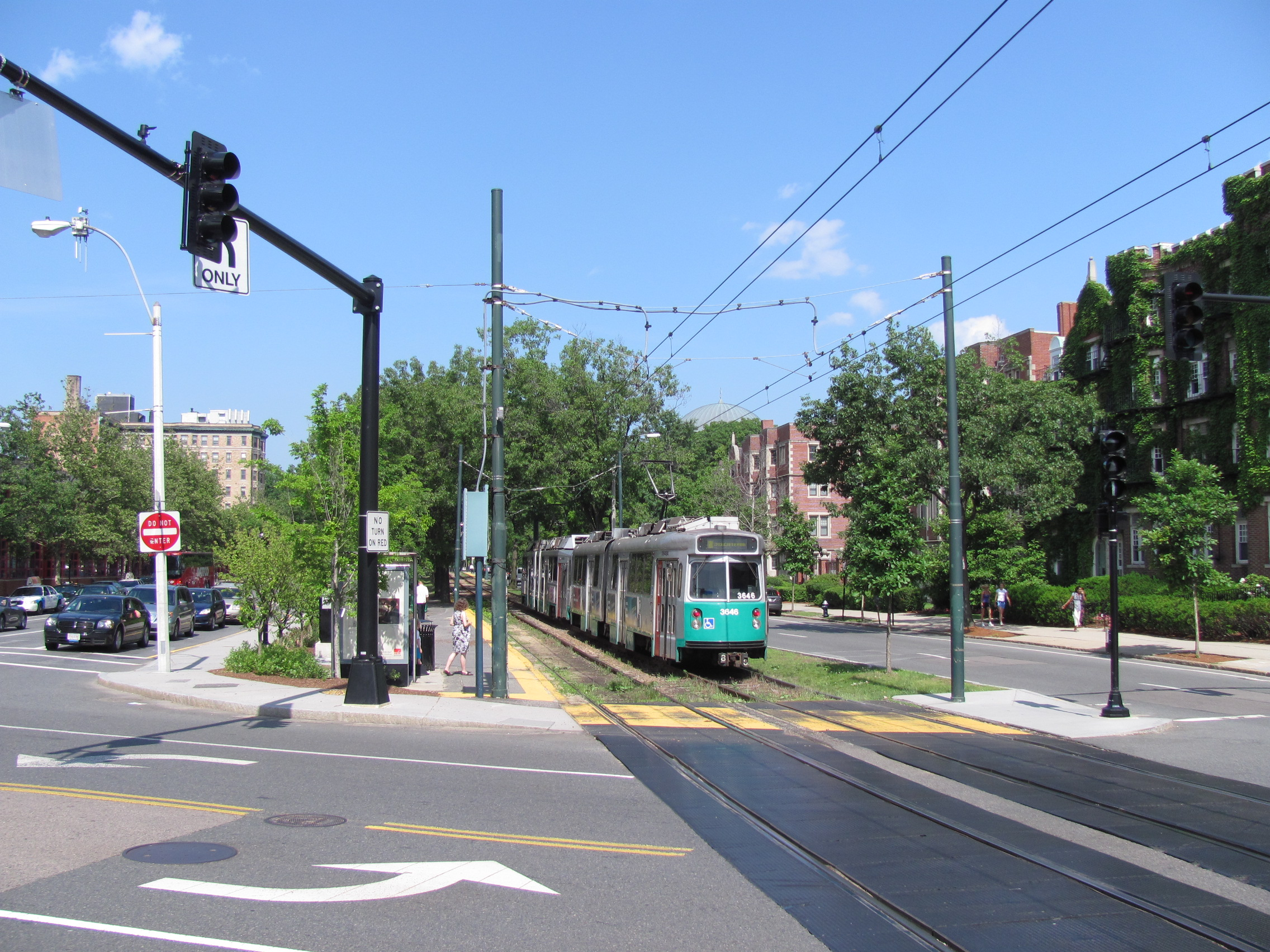 St. Paul Street MBTA station on the Green Line C Branch in Brookline Massachusetts